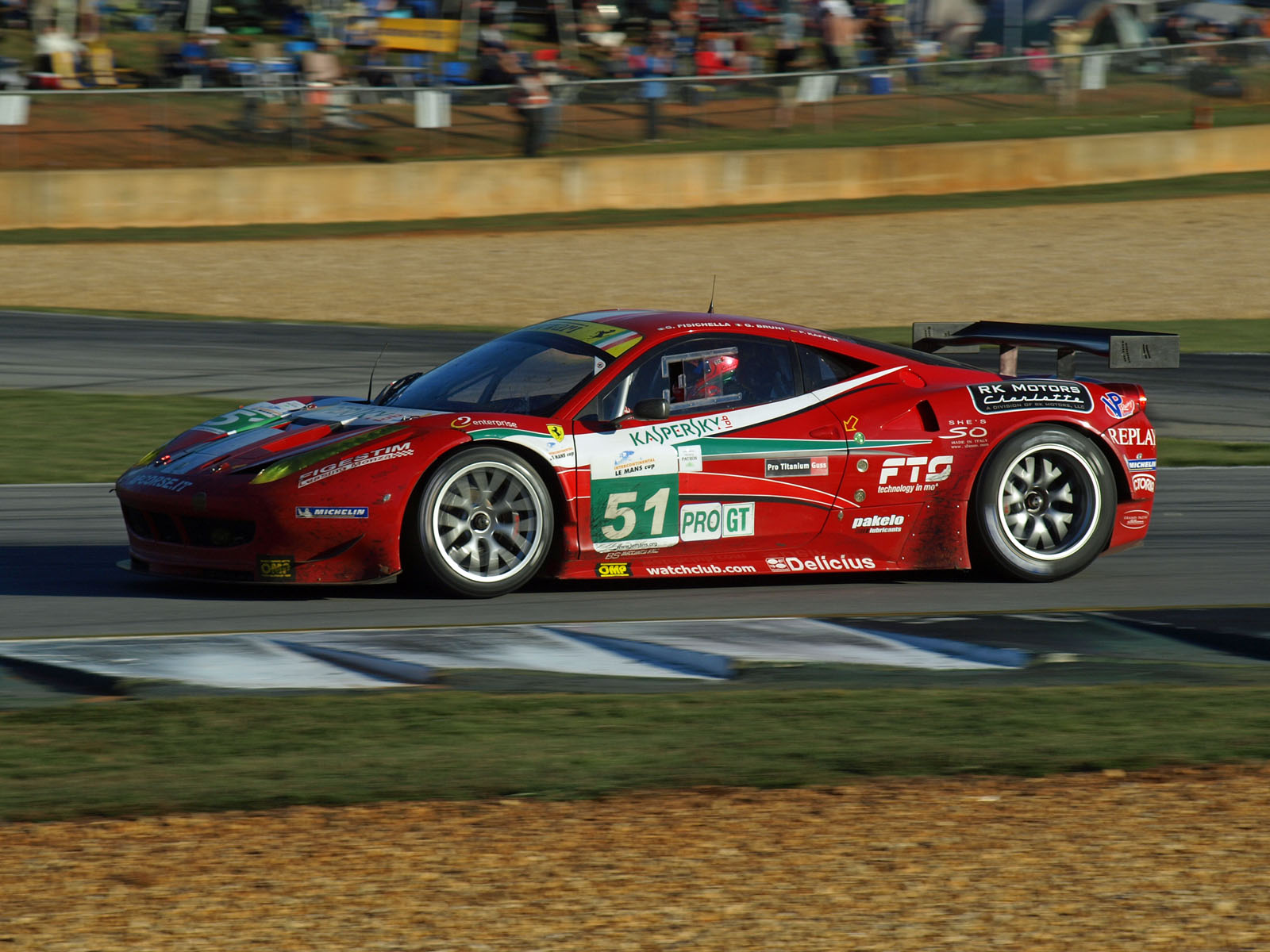 Gianmaria Bruni driving the AF Corse Ferrari 458 in the 2011 Petit Le Mans at Road Atlanta.